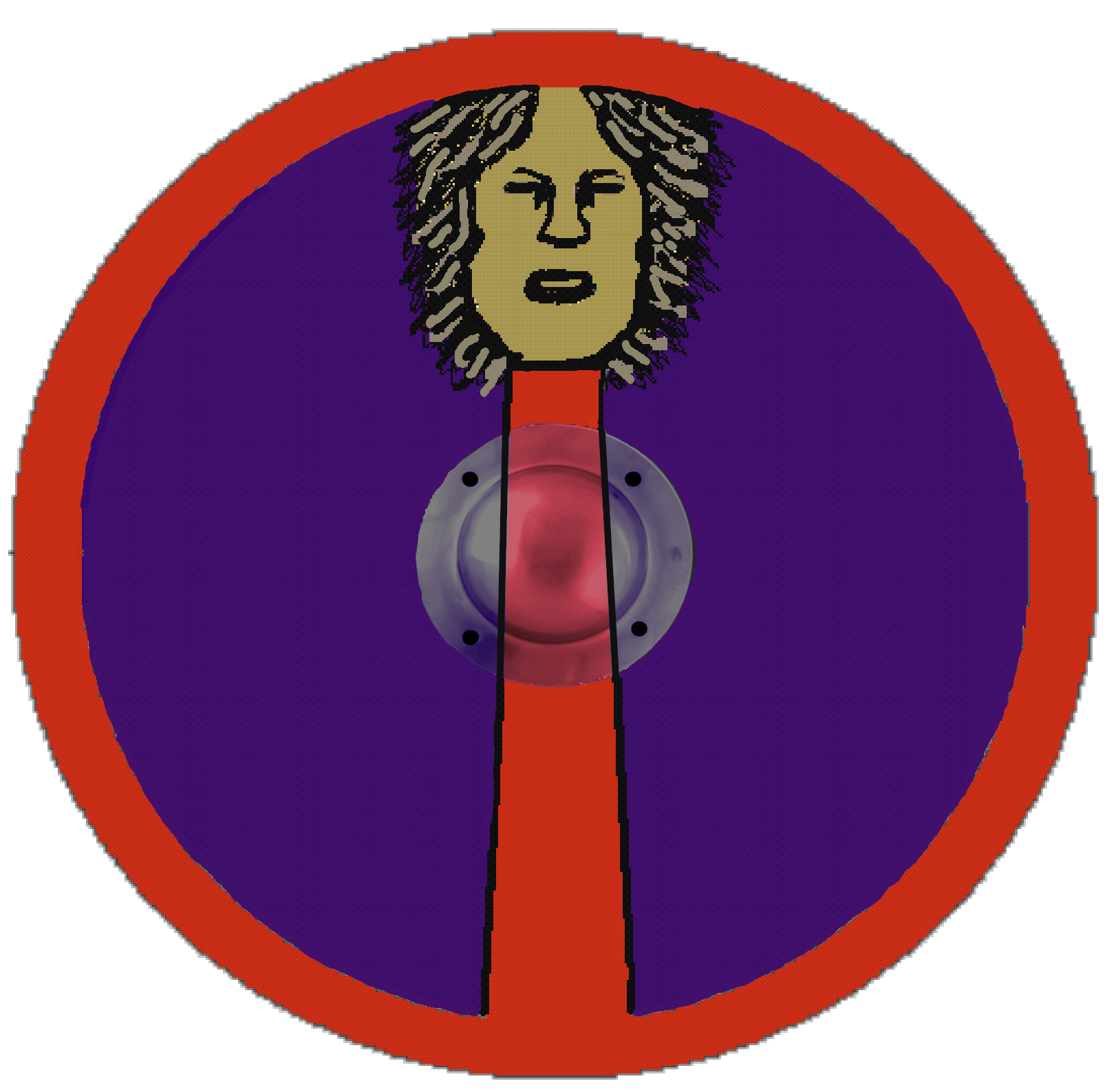 Shield pattern of the Gratianenses iuniores, listed as one of auxilia palatina units in the Magister Peditum's infantry roster; it also assigned to his Magister Peditum's Italian command, under the name Gratianenses.